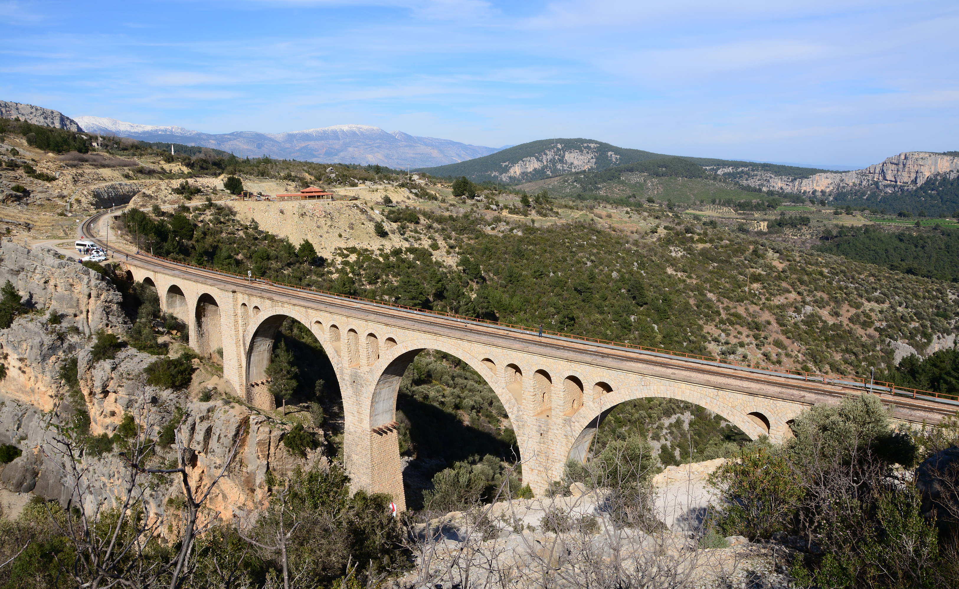 Northern side view of Varda viaduct. Kıralan, Karaisalı - Adana, Turkey.